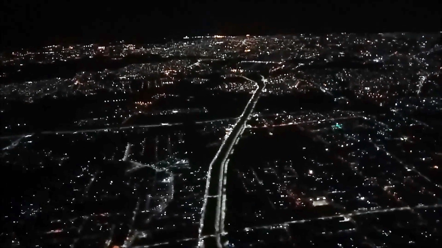 Manaus city view from airplane window at night.